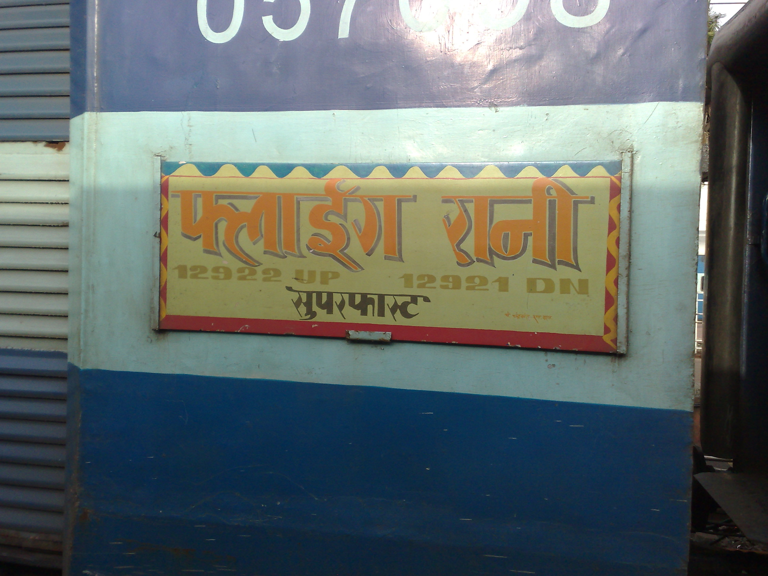 Flying Ranee Trainboard